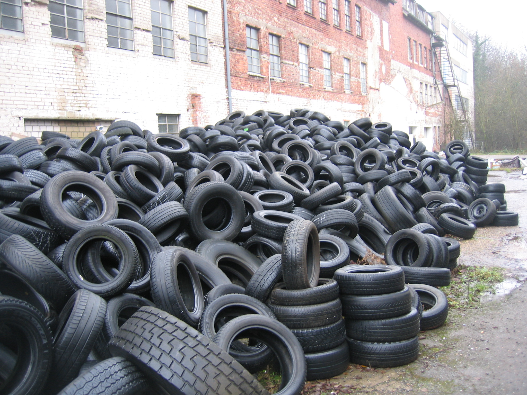 Old plant near Rödinghausen, Germany.